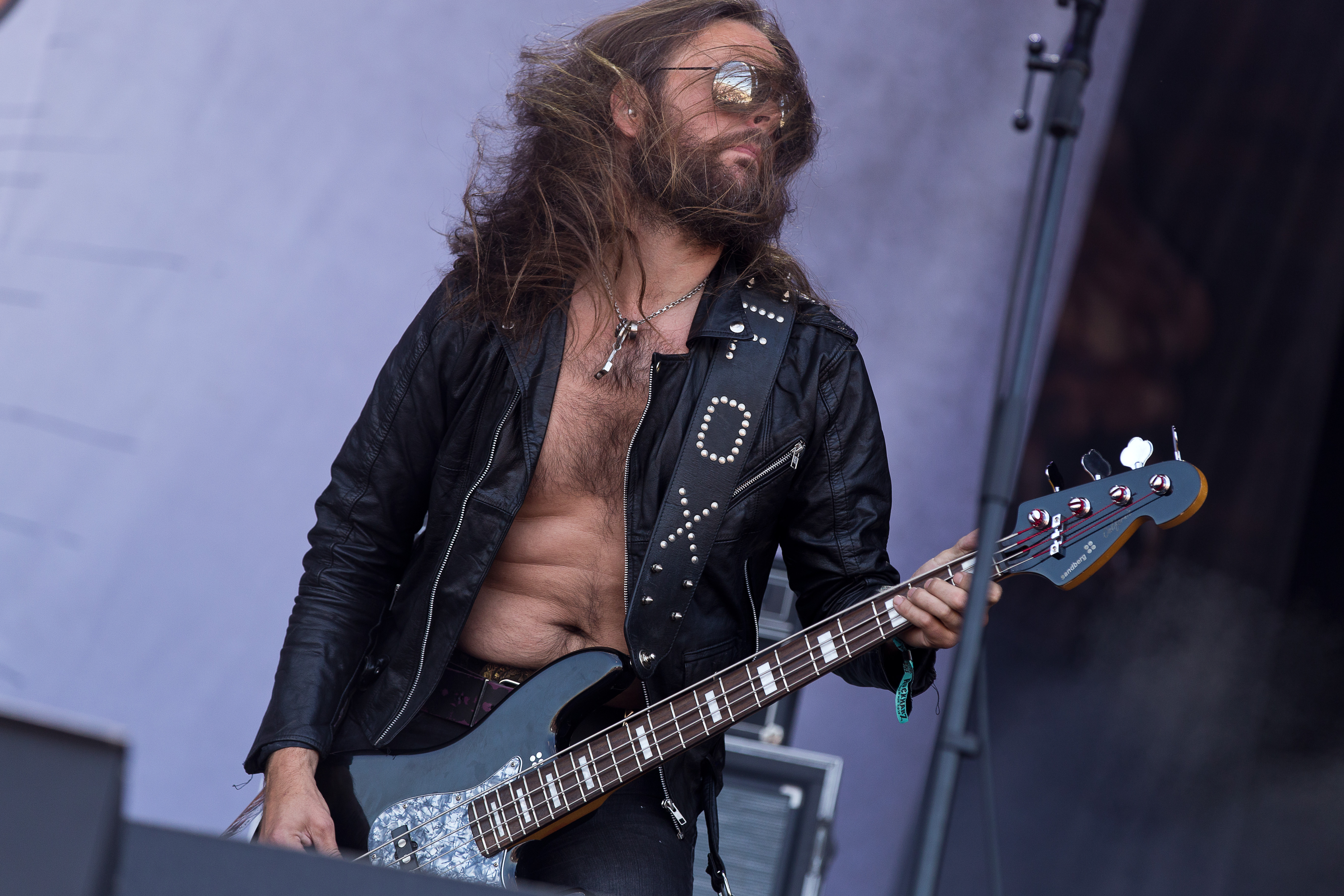 The Swedish stoner metal band Grand Magus at the Rockharz Open Air 2016 in Ballenstedt/Germany.